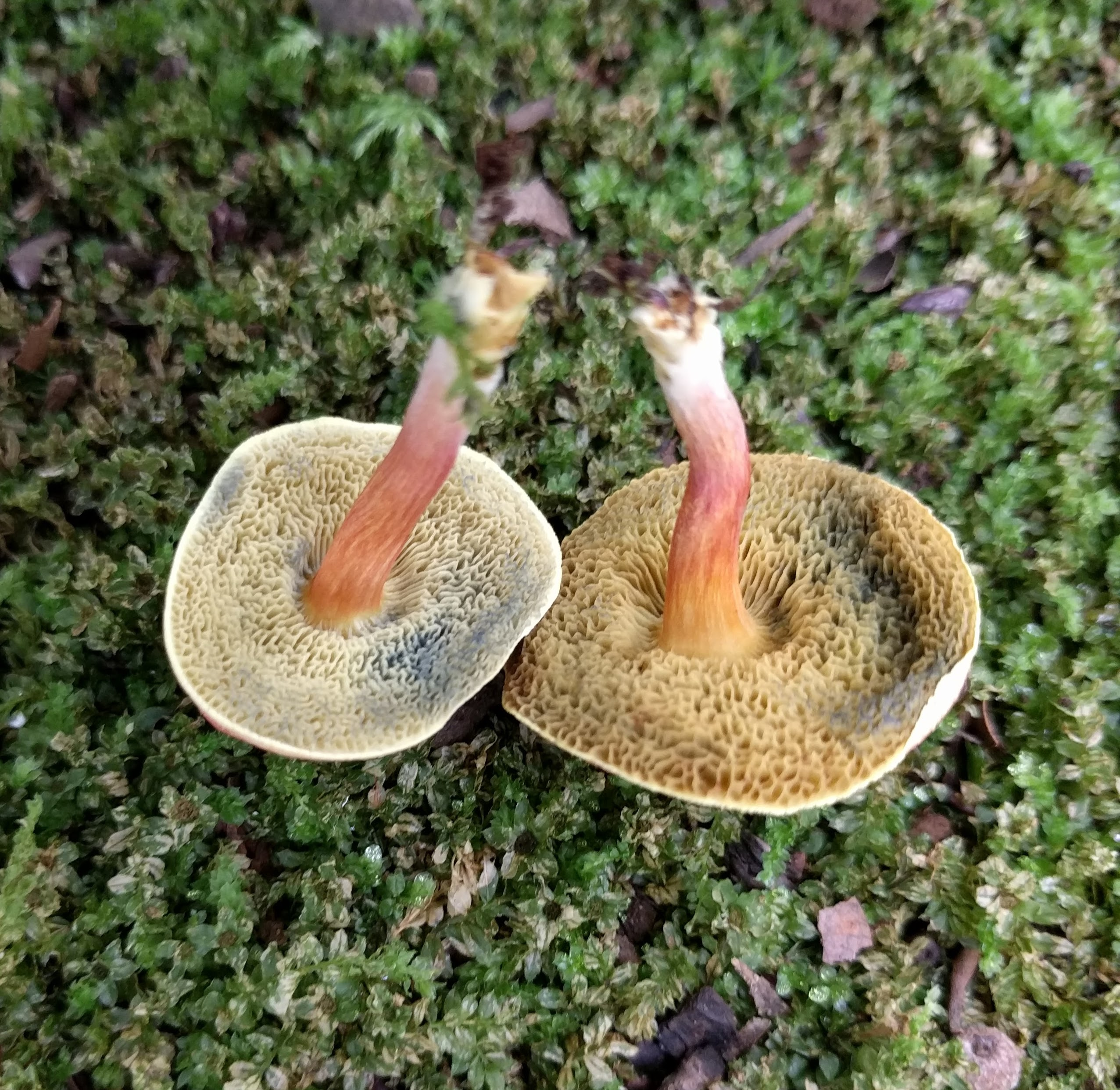 Parvixerocomus aokii (Hongo) G. Wu, N.K. Zeng & Zhu L. Yang Image location: Tsukuba, Ibaragi, Japan Growing under mixed woods Cap 2 cm; stipe 3 cm; pores and flesh staining blue when injured; spores brown, smooth, hyaline, cylindric, (9.072-)9.61-11.11(-12.044) x (3.937-)4.18-4.7(-5.094) µm, Q:2.09-2.88, N:20; pileipellis epithelium Recognized by sight: - Small size of basidiomata - Yellow tubes - Pores stains blue when injured Used references: - Wu, Gang, et al. “Four new genera of the fungal family Boletaceae.” Fungal Diversity 81.1 (2016): 1-24. - Based on microscopic features: - Spore size (according to reference, spore size of Parvixerocomus pseudoaokii is 7–8.5 (9) × 4–5 (5.5) μm) - Epithelioid pileipellis For more information about this, see the observation page at Mushroom Observer.